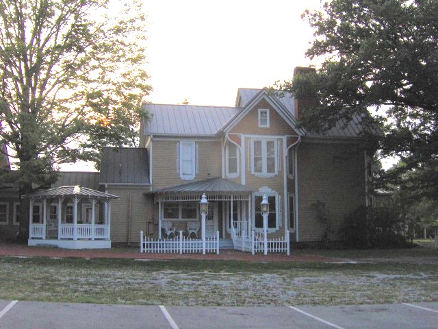 217 Cedar in Sevierville, Tennessee, United States. This house was designed by Lewis Buckner, a post-war African-American architect in Sevier County. It is listed as the "Waters House" on the National Register of Historic Places.